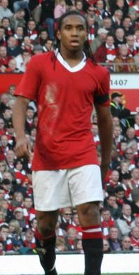 Brazilian footballer Anderson